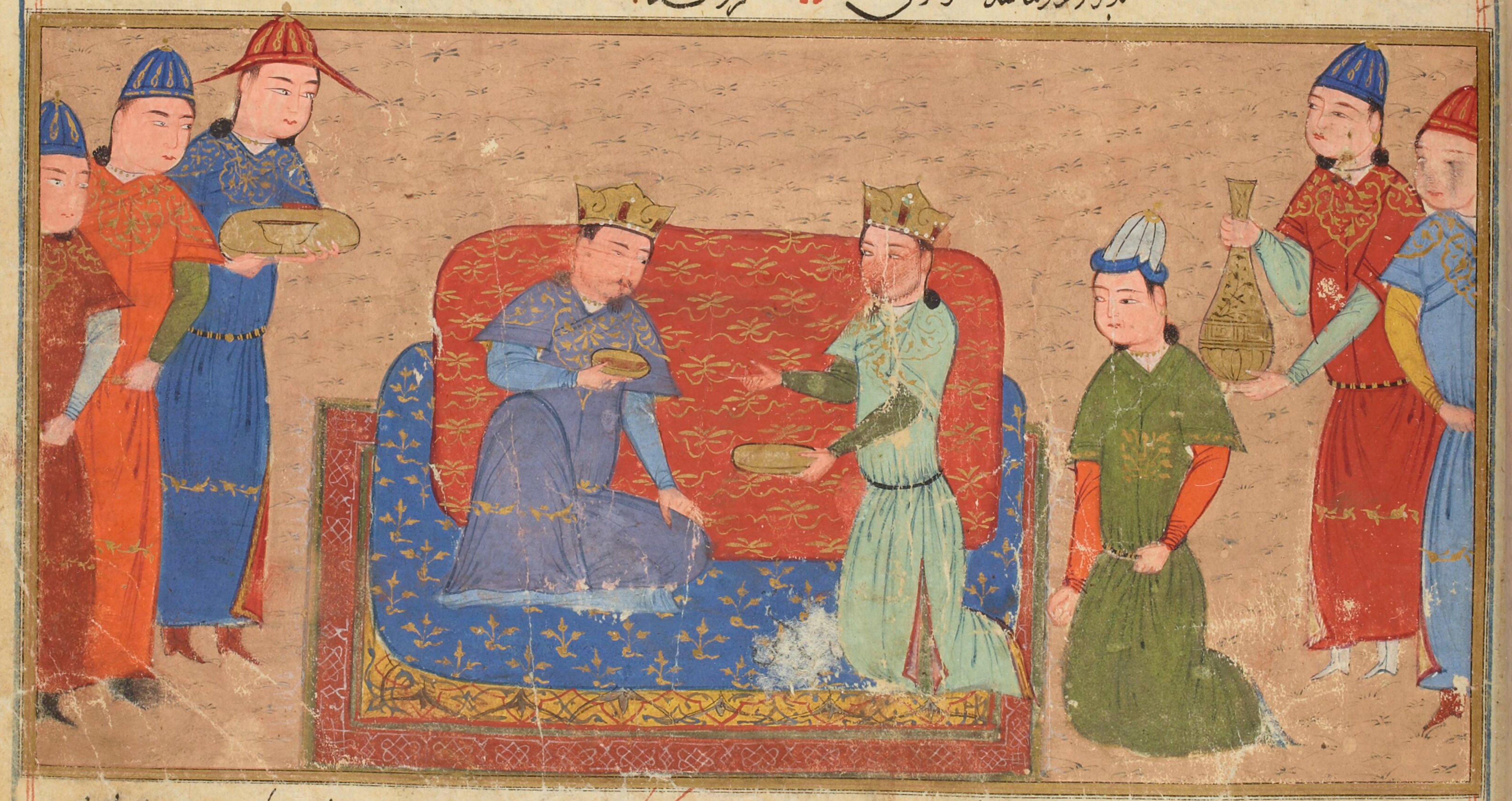 Genghis Khan and Wang Khan. Jami' al-tawarikh, Rashid al-Din.